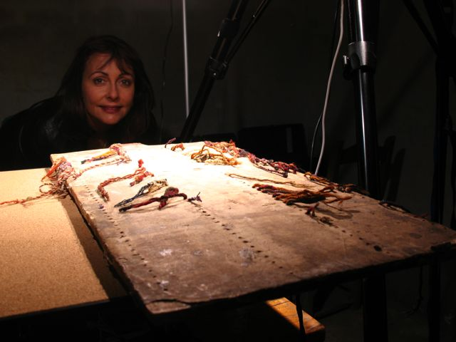 Sabine Hyland with khipu board in Mangas